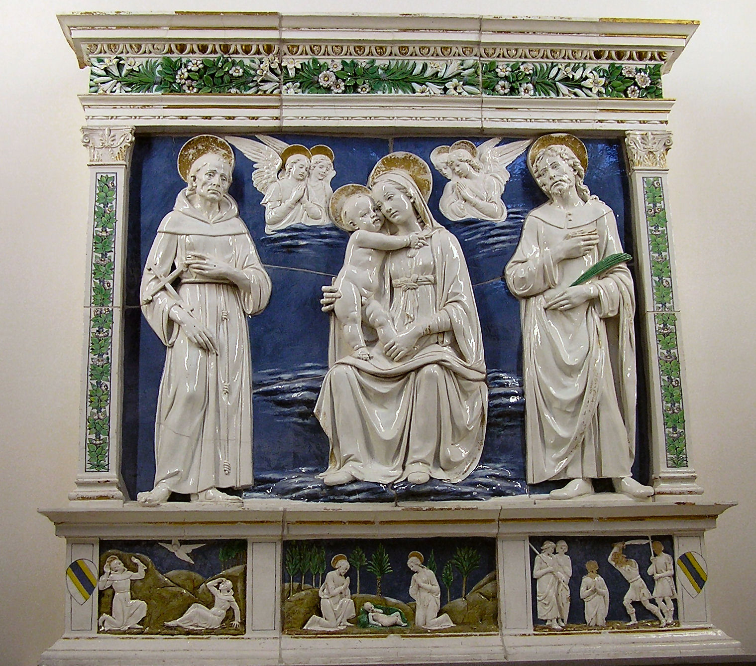 Andrea della Robbia: Virgin and Child with St. Francis and St. Cosmas (?), Florence c. 1470, terracotta; from the Villa Sassetti in Varramista (Palaia)